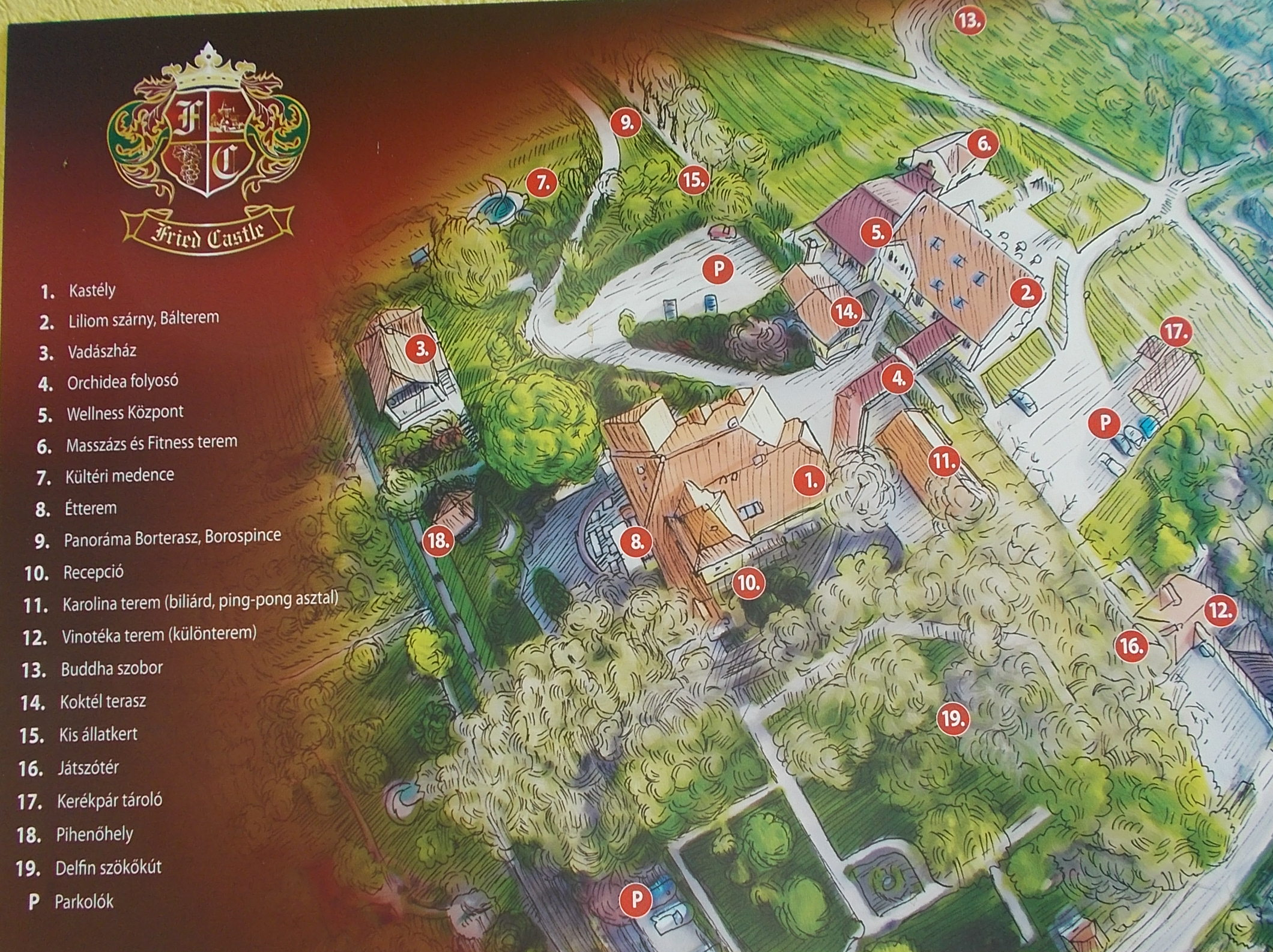 Art Nouveau mansion remodelled to four star hotel. Listed ID 3302. Built in 1926 by Pál Vágó. First owner Imre Fried (local magnat). - Malom Street, Simontornya, Tolna County, Hungary.